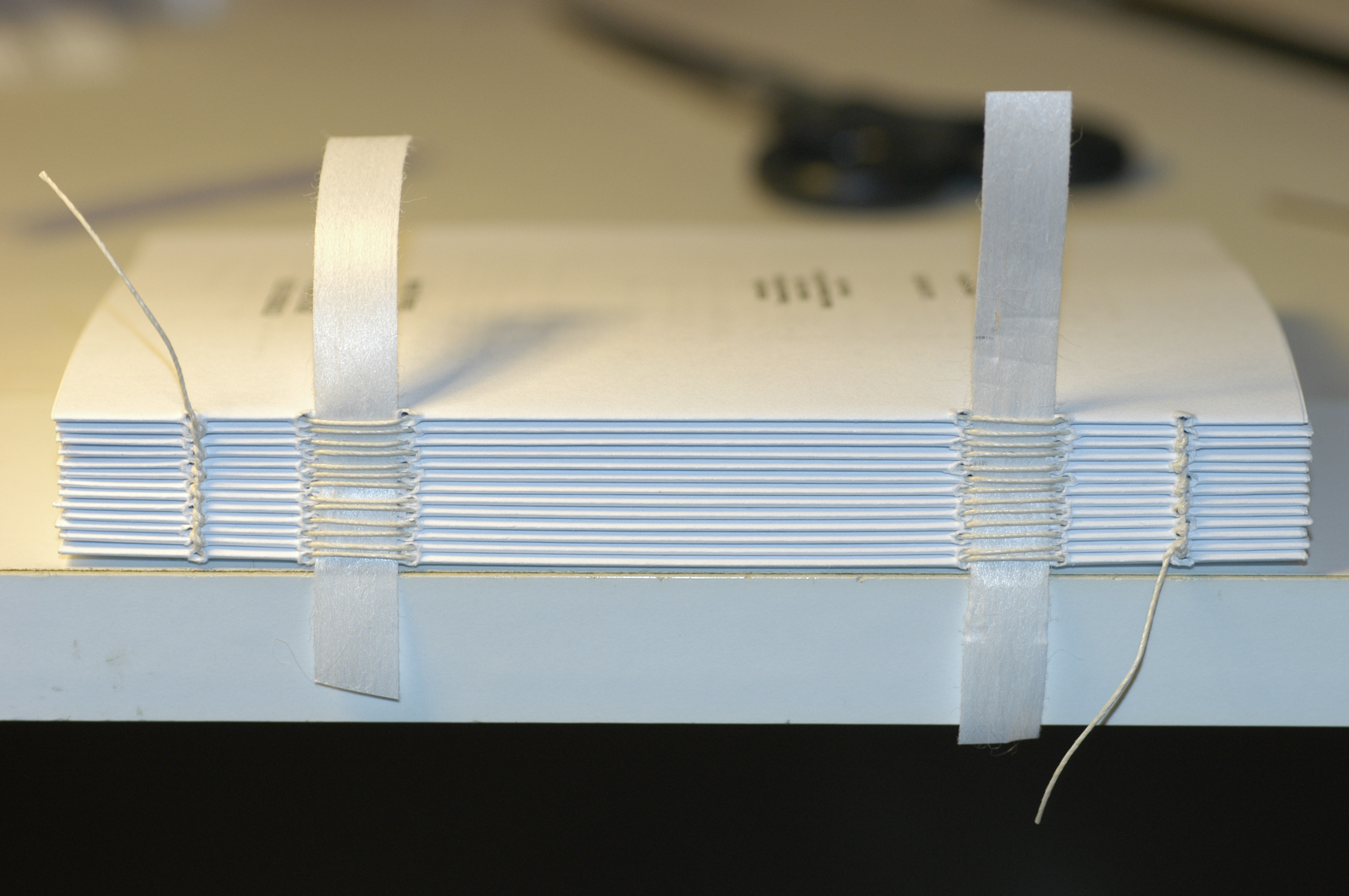 (Bookbinding) Tied book block